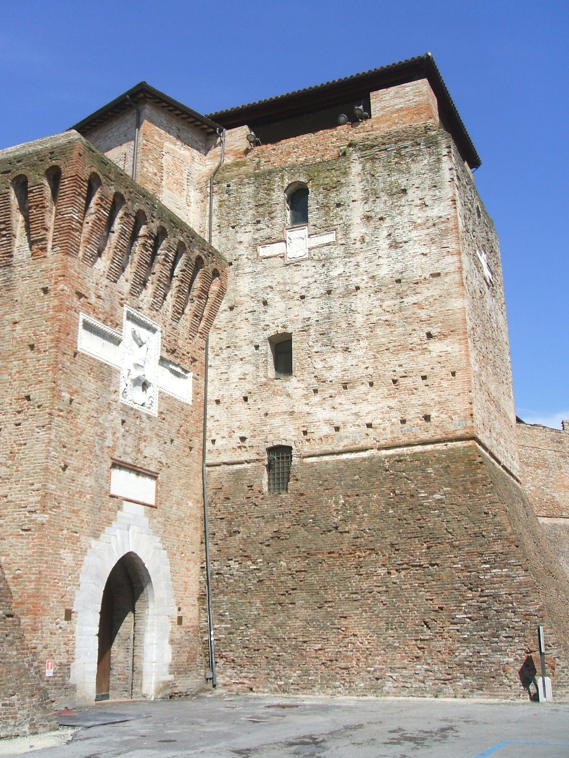 Sismondo Castle in Rimini